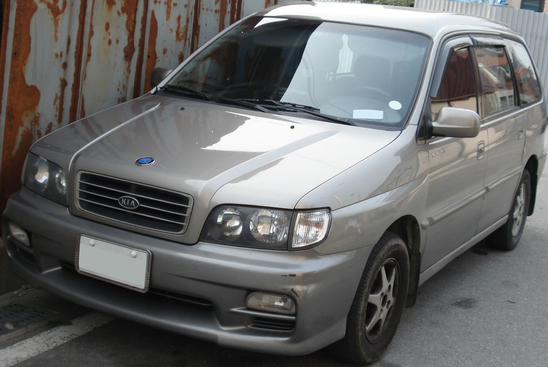 Kia Carstar